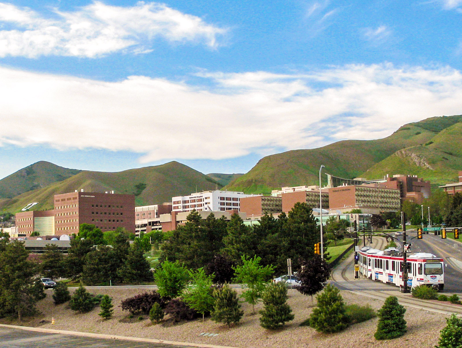 A view of the medical center and UTA TRAX light rail at the University of Utah campus in Salt Lake City, Utah. The University of Utah block U can be seen on the mountain on the left side.